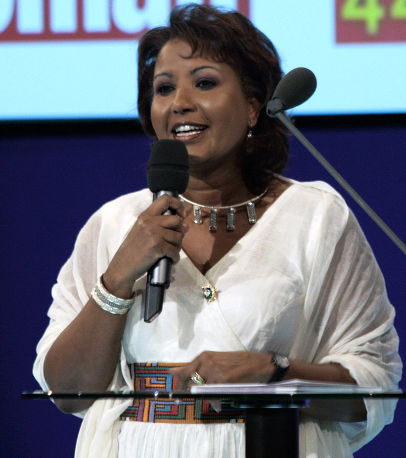 Almaz Böhm at the MiA-Awards 2009 (Studio 44, Vienna, Austria).